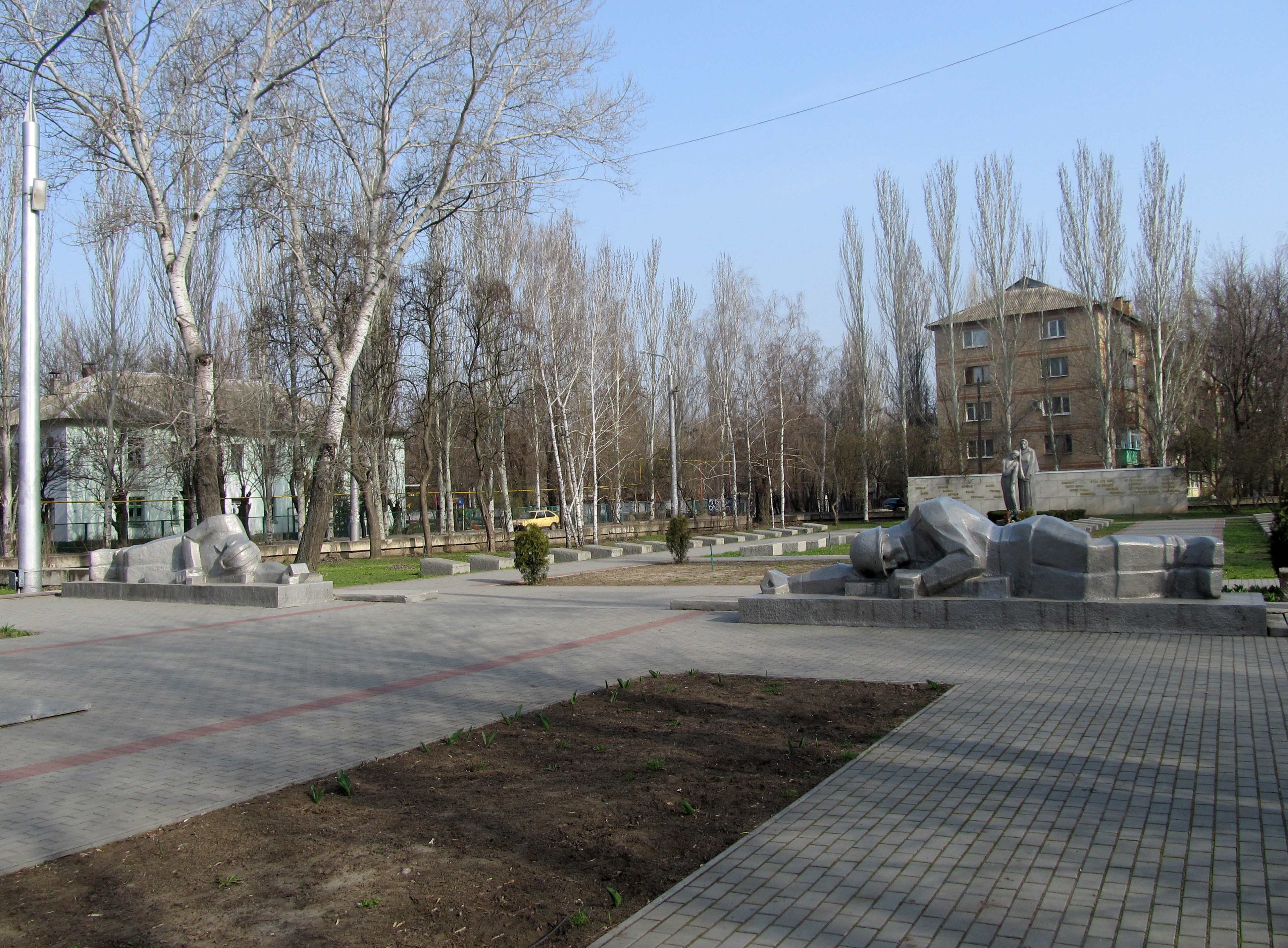 "Sleeping Soldiers" sculptural group (WWII memorial in Melitopol, Zaporizhia Oblast, Ukraine).